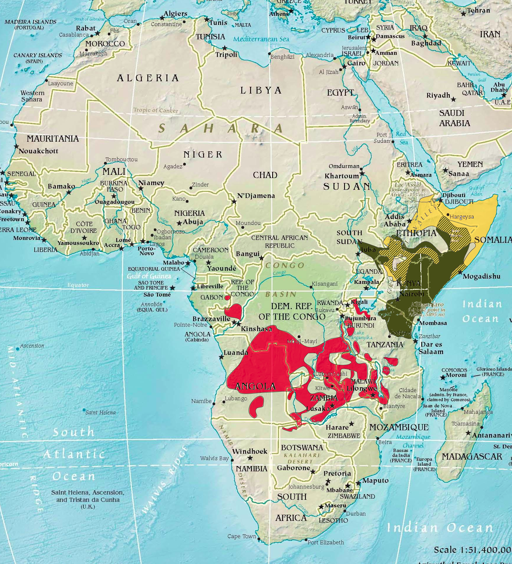 Distribution Map of Lanius somalicus (yellow), Lanius dorsalis (green) and Lanius souzae (pink). Green and yellow stripes: Sympatric distribution of L. somalicus and L. dorsalis.